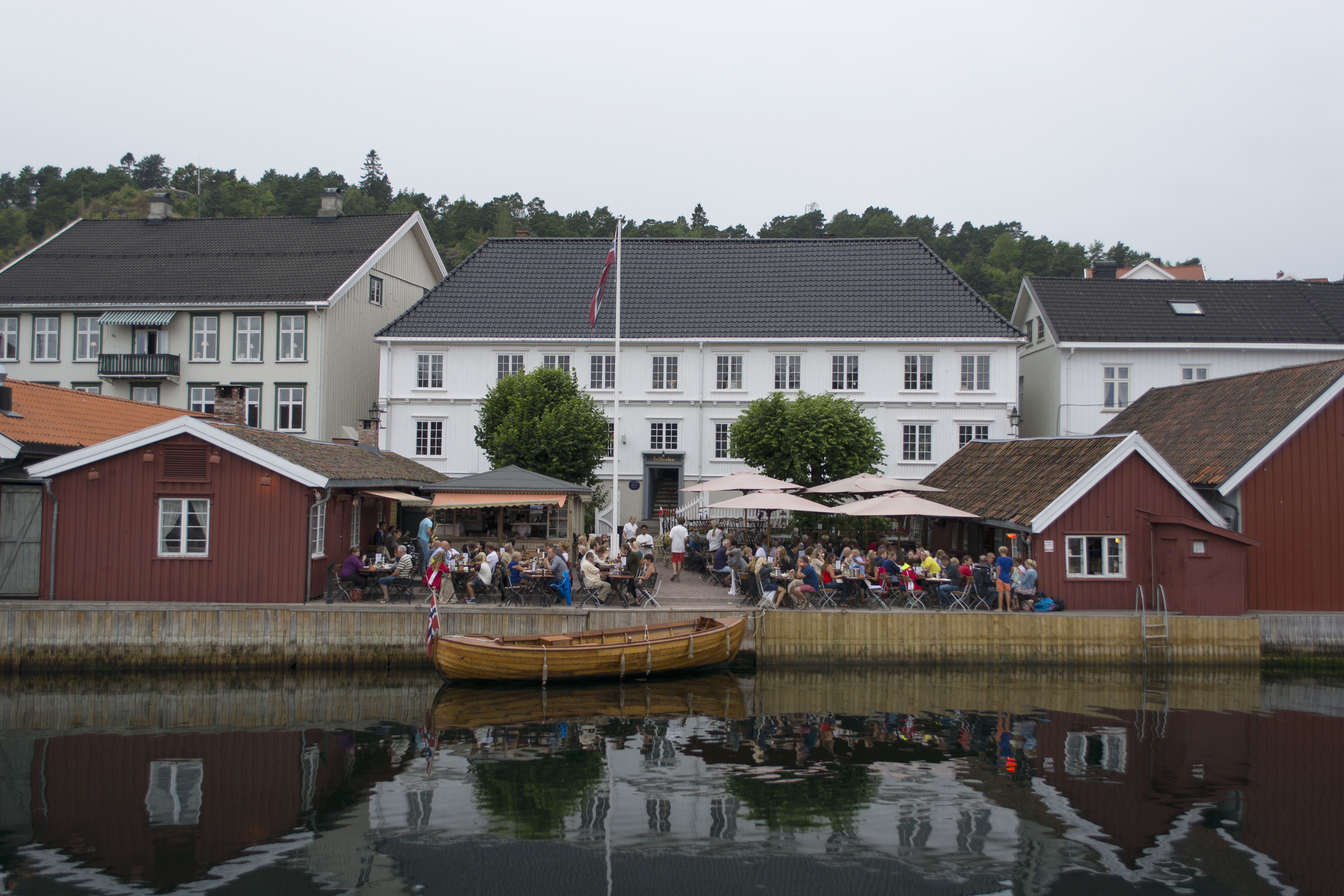 Kragerø customs-house with protected warehouses